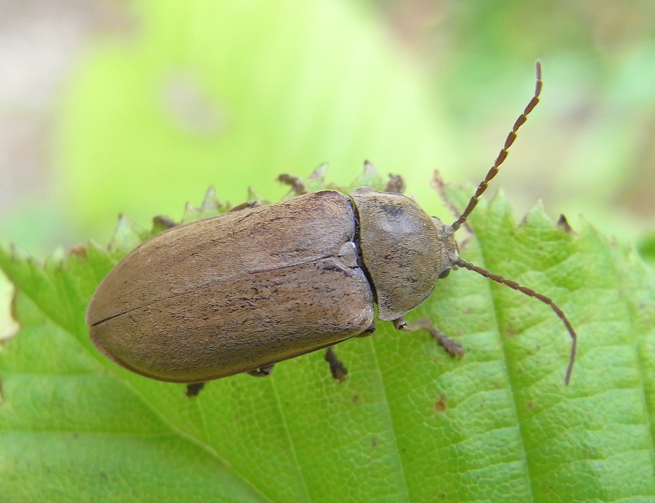 Dascillus cervinus from Hungary, near Repashuta at 2010-06-20 Ricoh R8